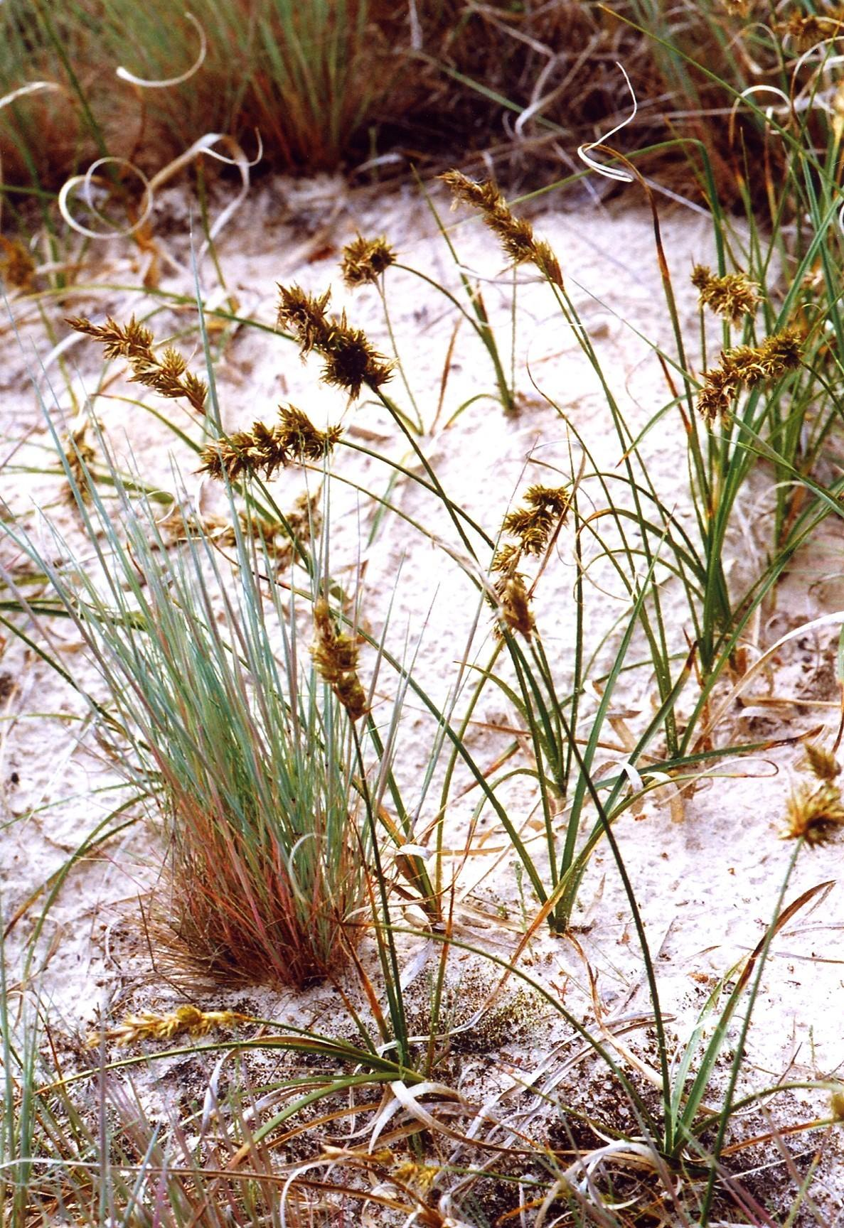 The Sand sedge, Carex arenaria, together with Corynephorus canescens (the bluish grass).